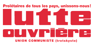 Logo of Lutte Ouvrière